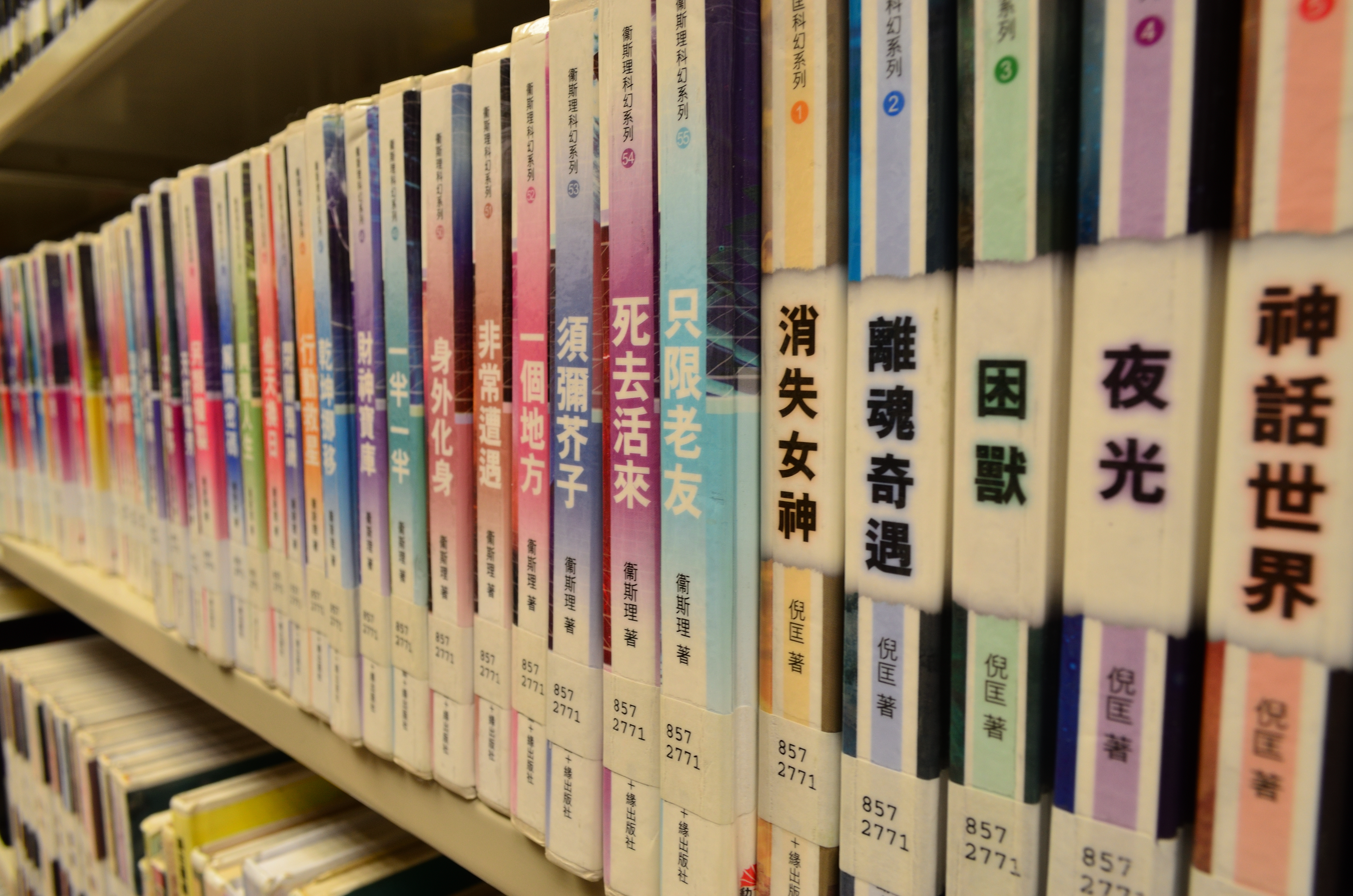 Ni Kuang Science fiction